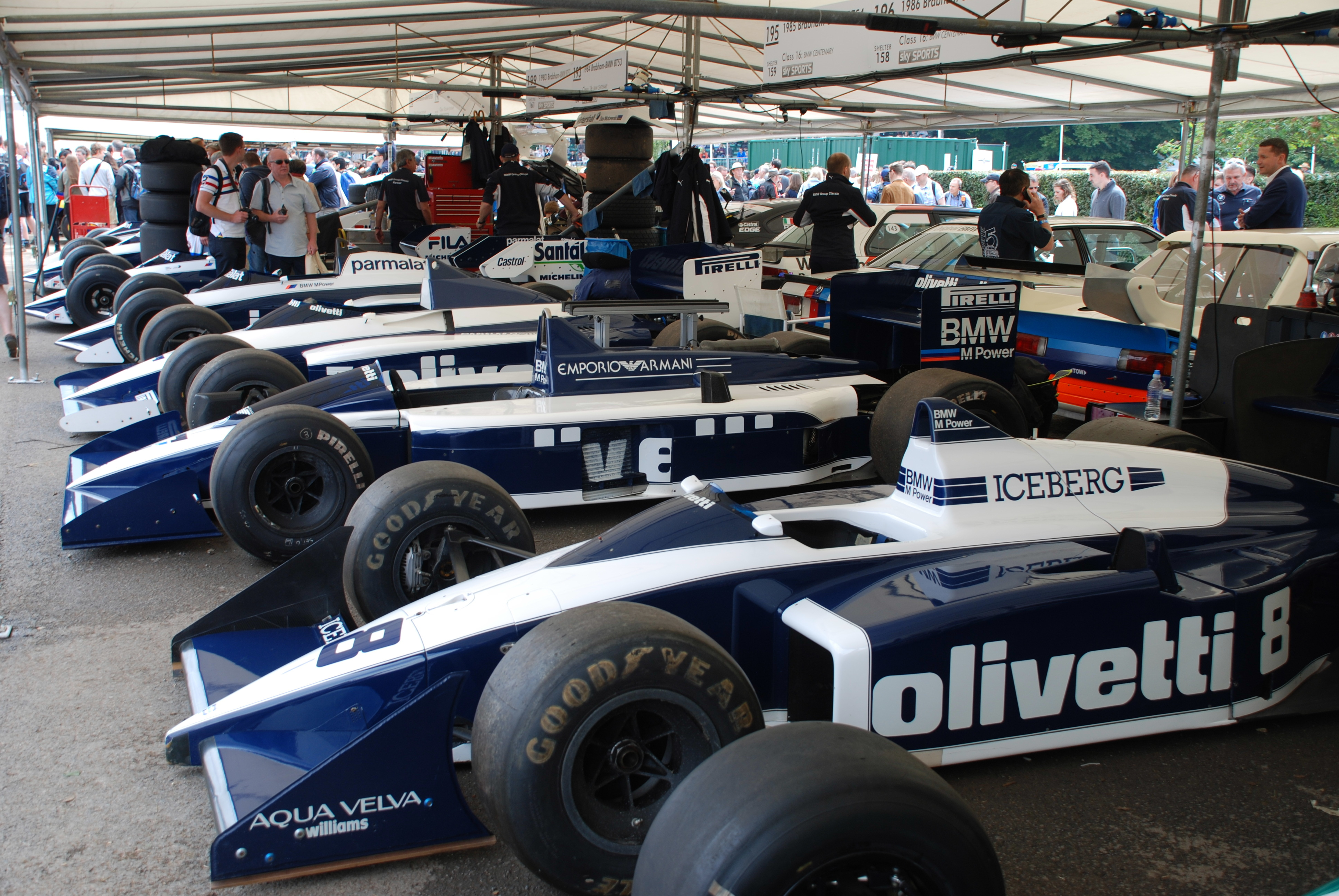 Goodwood Festival of Speed - 2016 Goodwood House England Sunday 26th June 2016